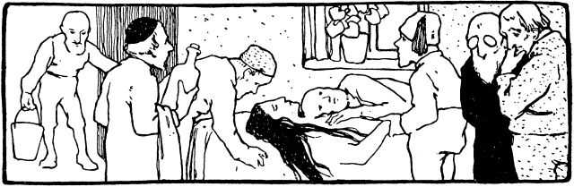 Illustration to Snow White by Otto Ubbelohde